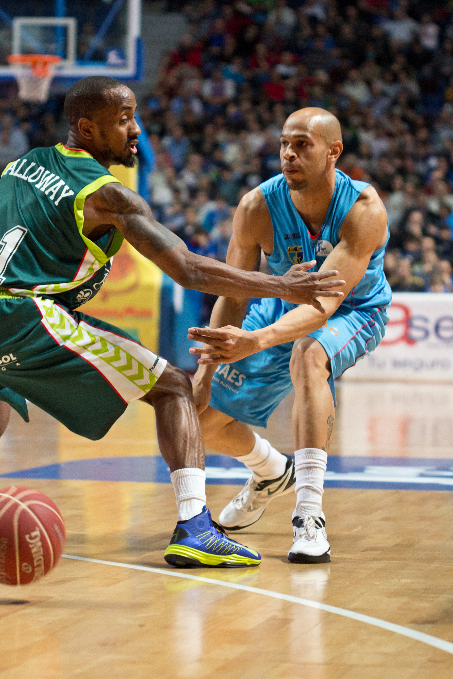 Josh Fisher and Earl Calloway. Game Estudiantes vs Unicaja Málaga.